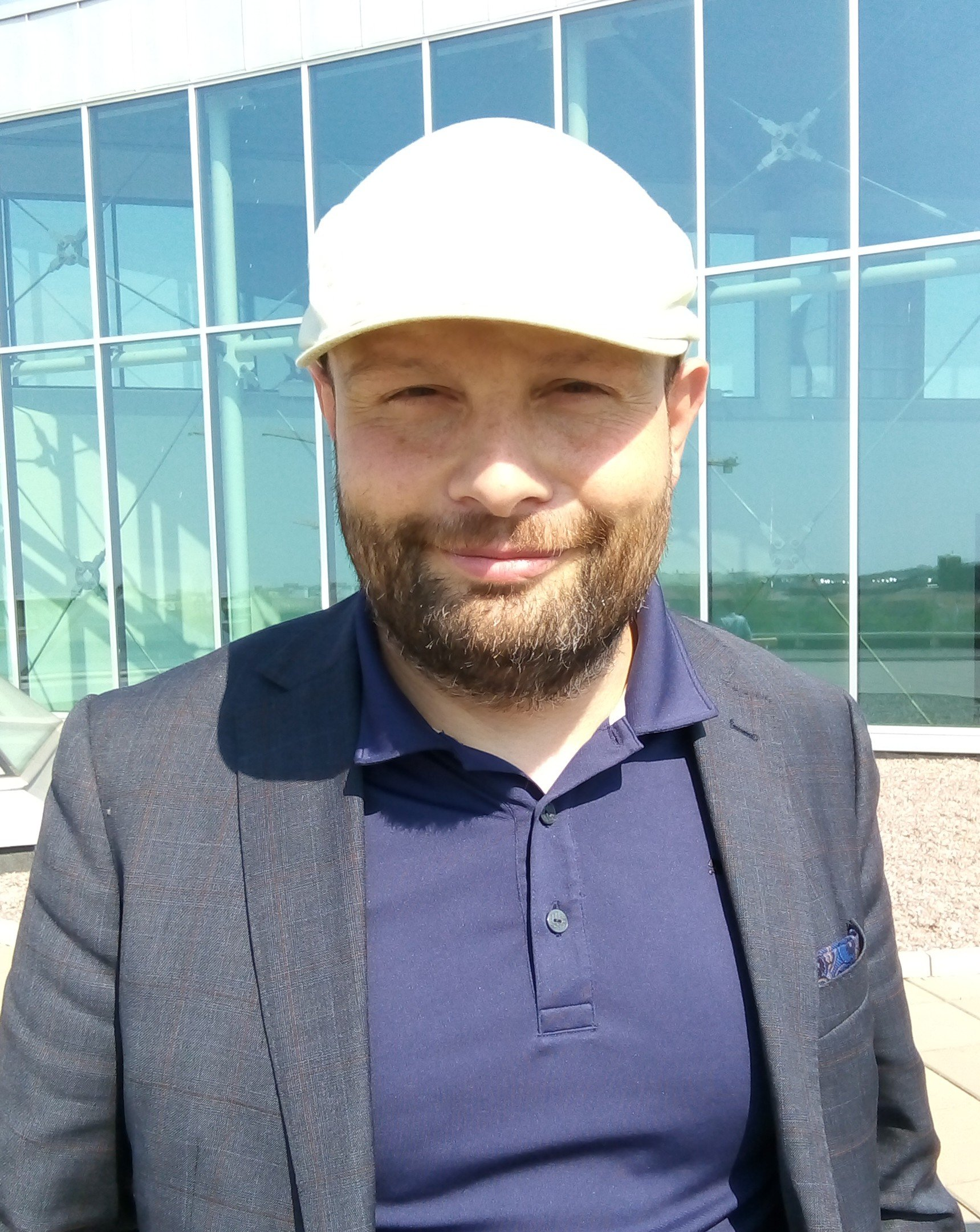 Mohamad Hassan, politician, Uppsala, Sweden check usage